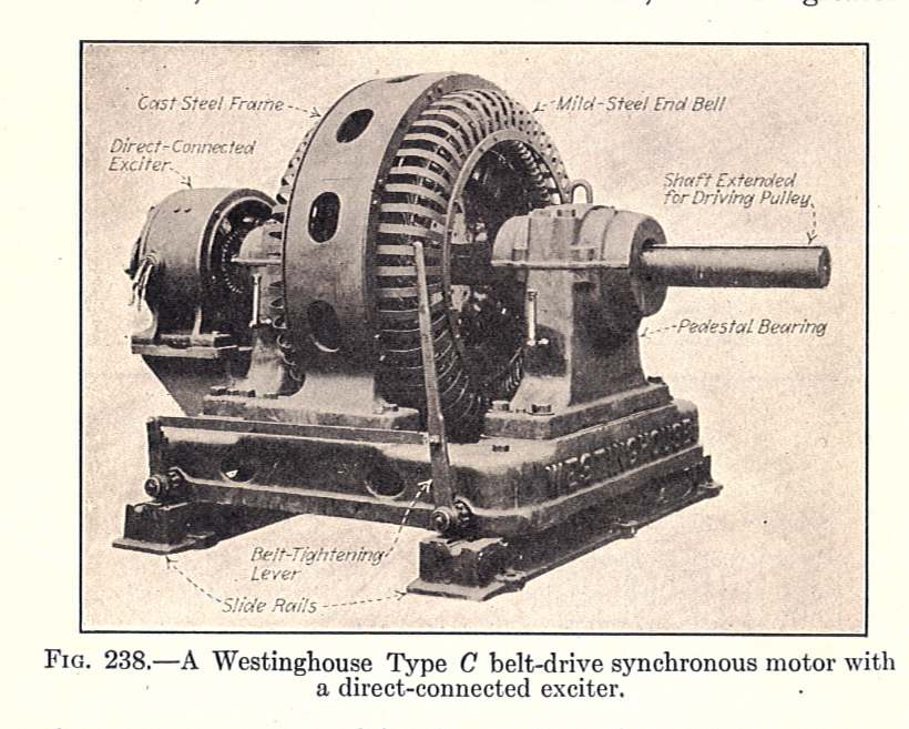 Fig. 238 Westinghouse Type C belt-drive synchronous motor with a direct-connected exciter. See other images from this source in 'Electrical Machinery'